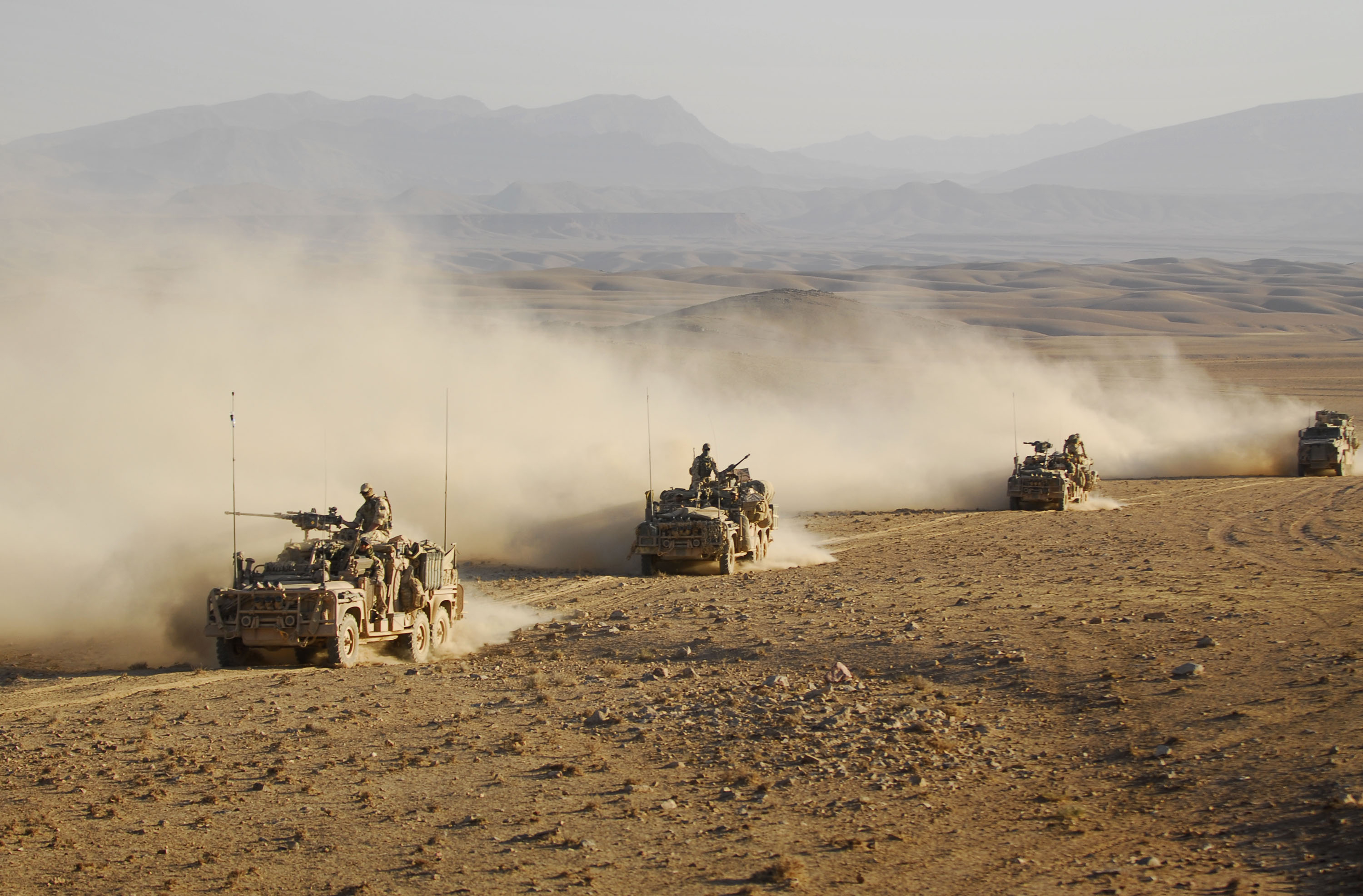 Special Operations Task Groups Long Range Patrol Vehicles drive in convoy across one of Afghanistan's desert, or 'dasht' regions.